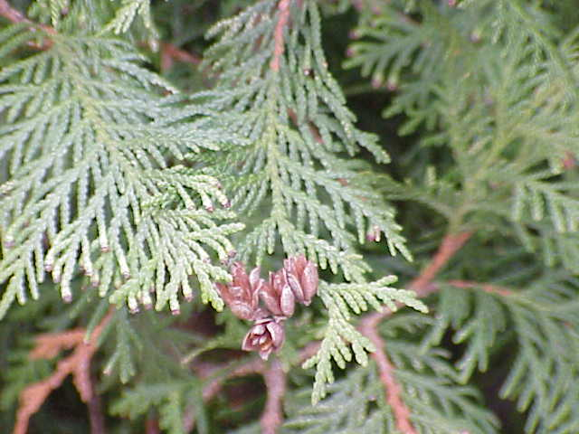 Species: Thuja occidentalis Family: Cupressaceae Image No. 1